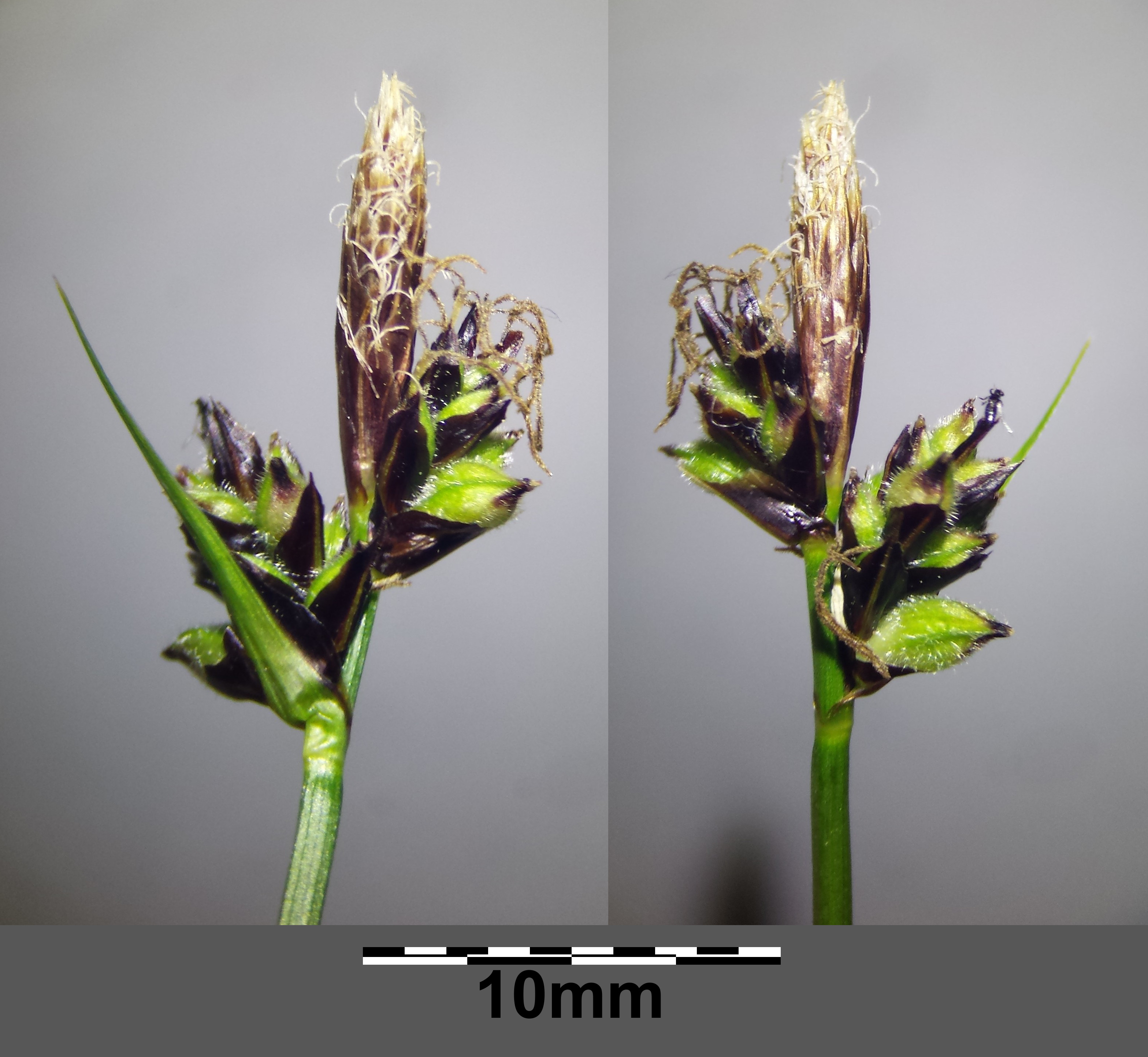 Inflorescence with 1 ♂ spike at the top and several ♀ spikes below Taxonym: Carex montana ss Fischer et al. EfÖLS 2008 ISBN 978-3-85474-187-9 Location: Rohrwald, district Korneuburg, Lower Austria - ca. 320 m a.s.l. Habitat: Carpinion betuli